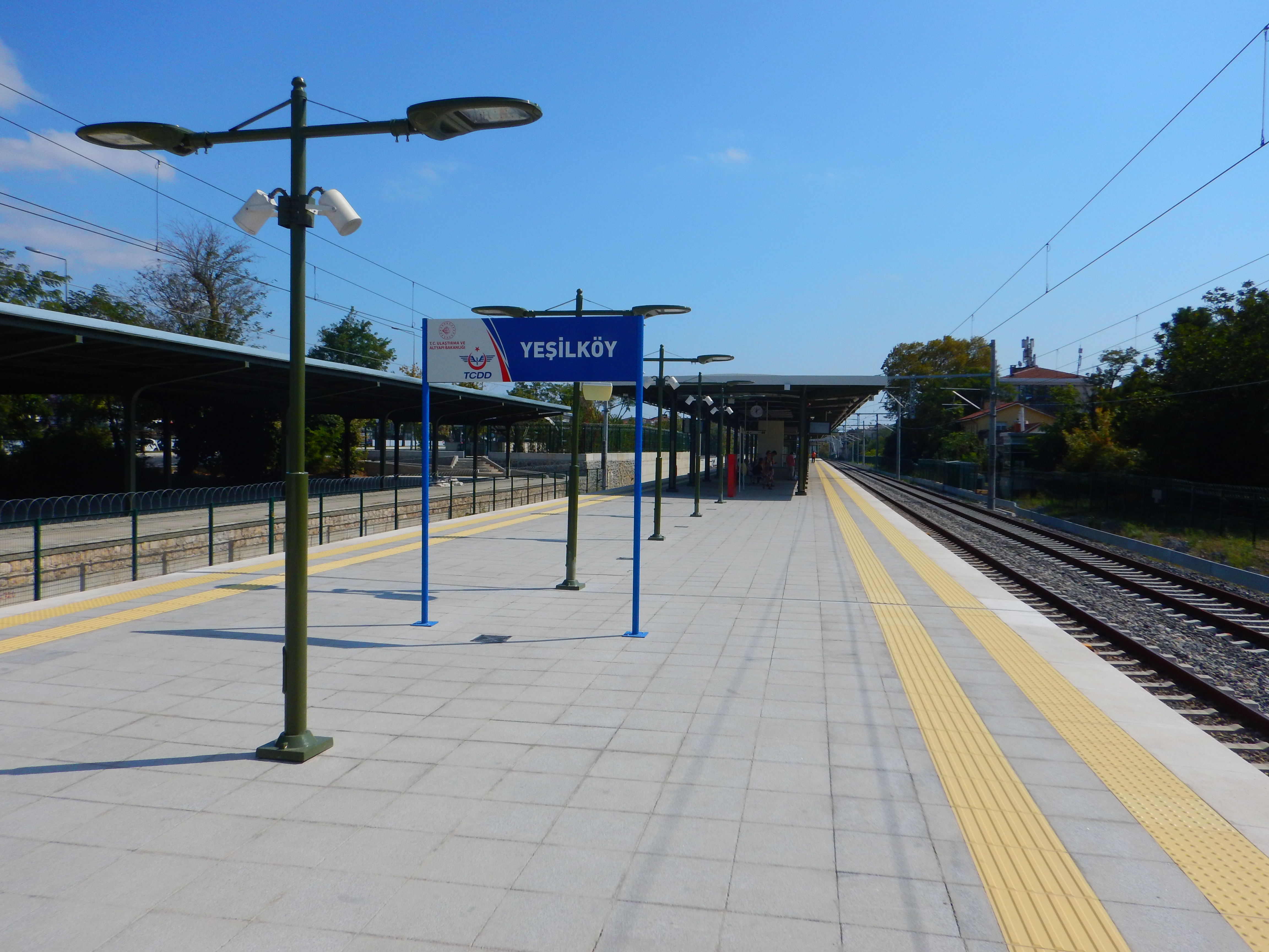 The Marmaray station at Yesilköy